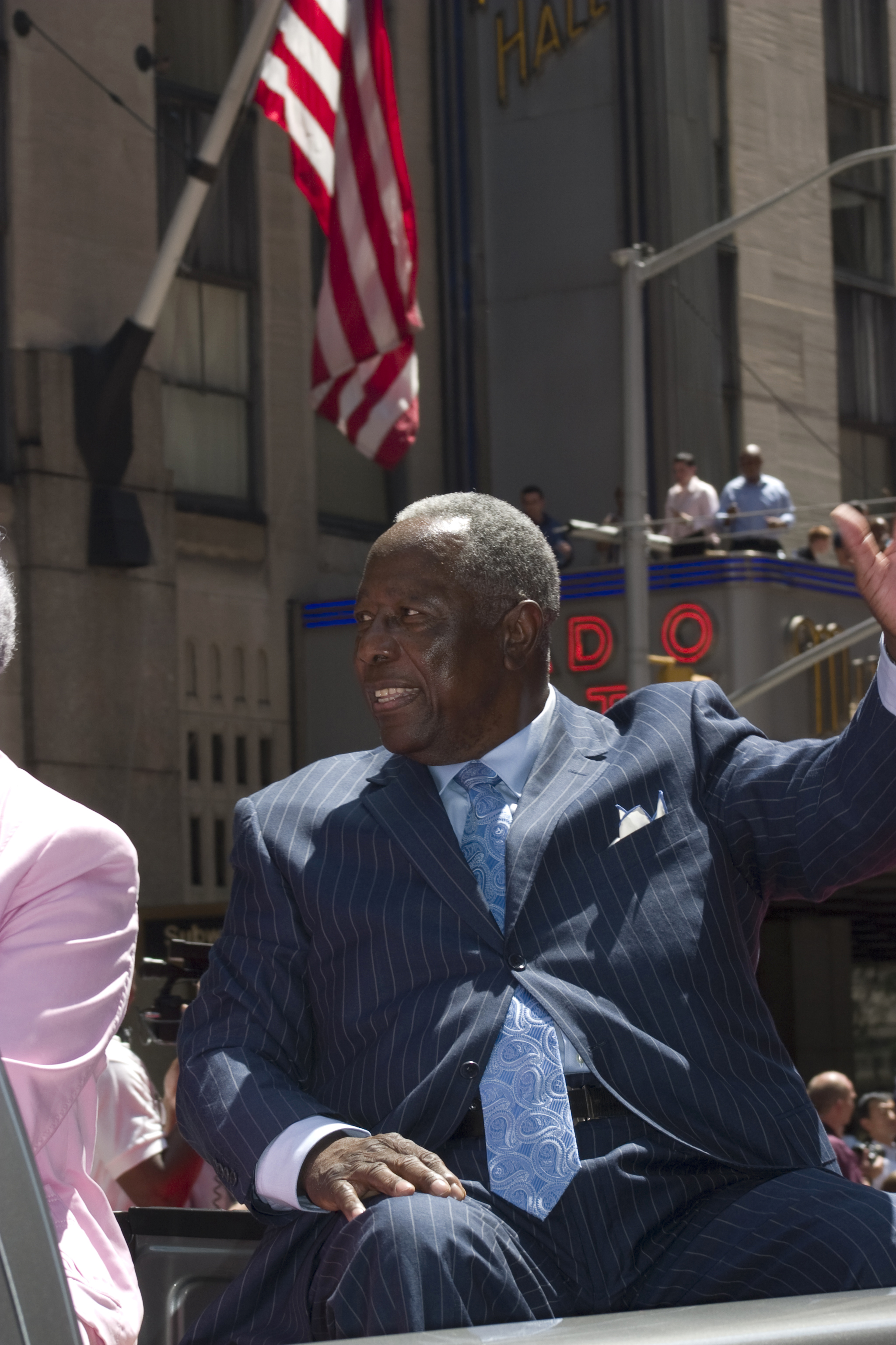 Hall of Fame baseball player Hank Aaron at the 2008 All-Star Game Red Carpet Parade. © Rubenstein, photographer Martyna Borkowski